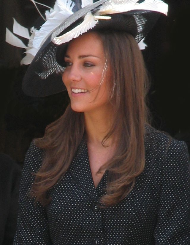 Kate Middleton at the Garter Procession, 2008